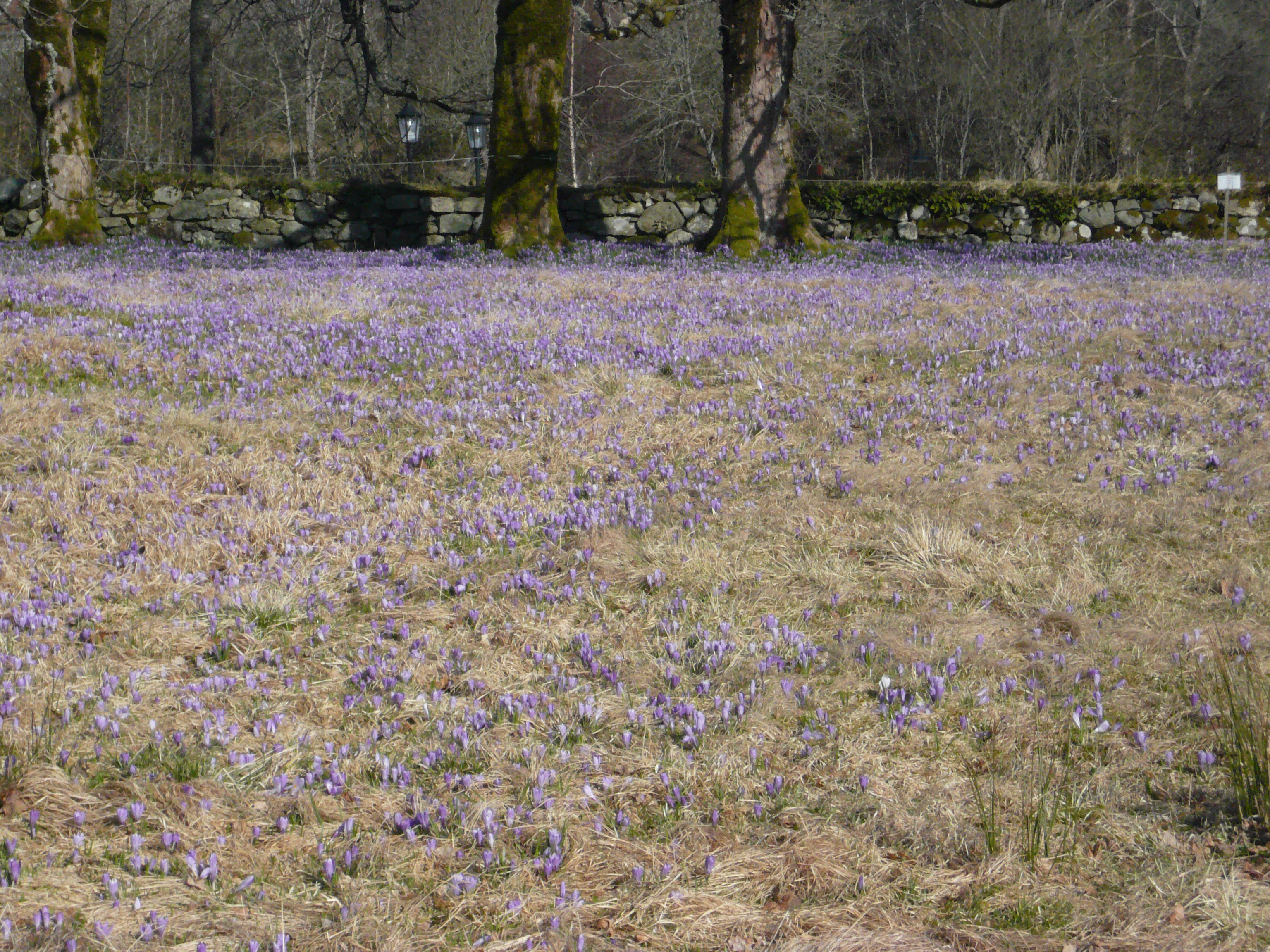 Crocus vernus at Store Milde, Bergen, Norway